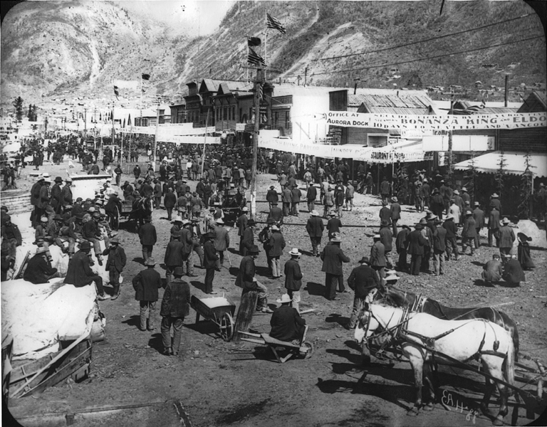 Photograph, glass lantern slide, Front Street, Dawson, YT, 1899, Hegg. Silver salts on glass - Gelatin dry plate process - 8 x 8 cm